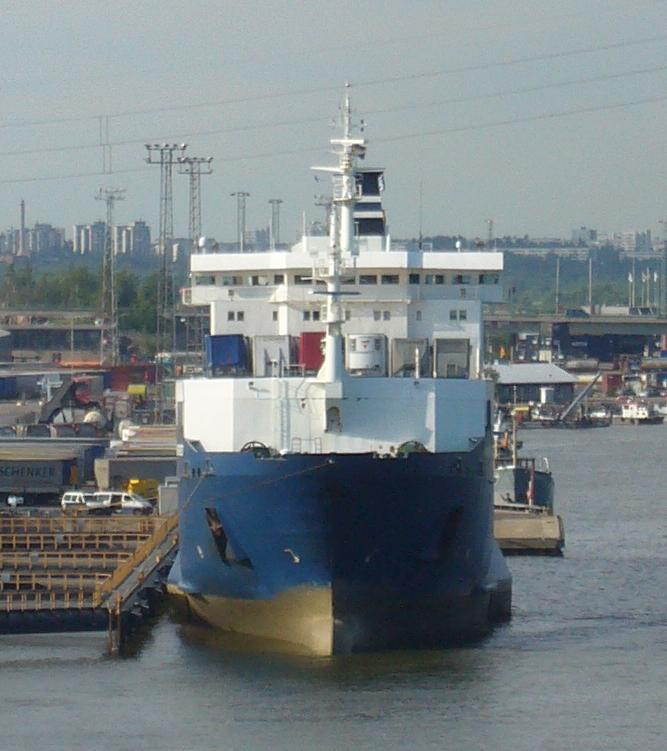 Swedish RORO cargo ship M/S Finnforest in Helsinki, Finland.